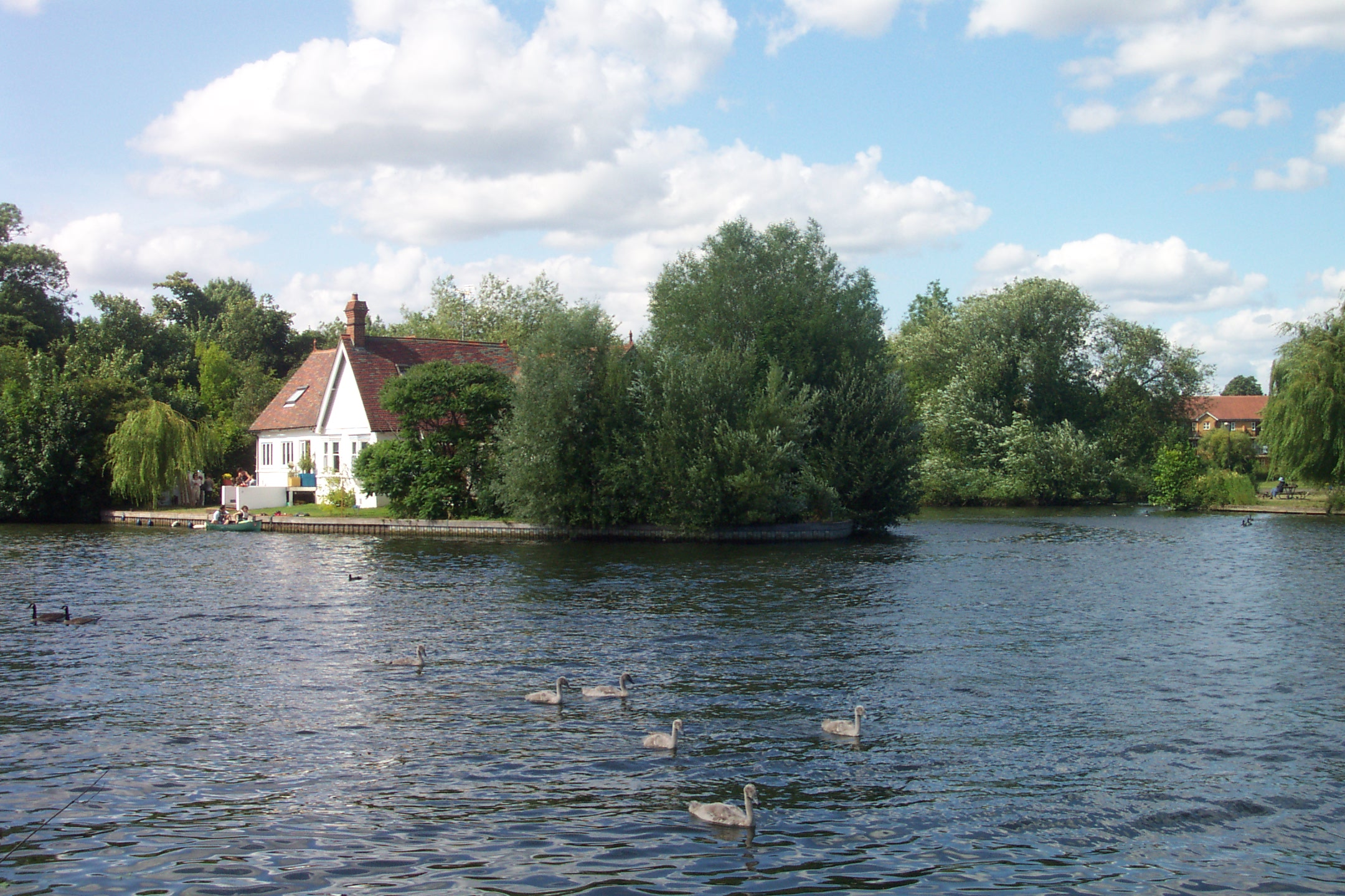 The downstream tip of Fry's Island, in the River Thames in the English town of Reading, together with the single house on the island. Photograph taken from the south bank of the river. For more information see the Wikipedia article Fry's Island'.